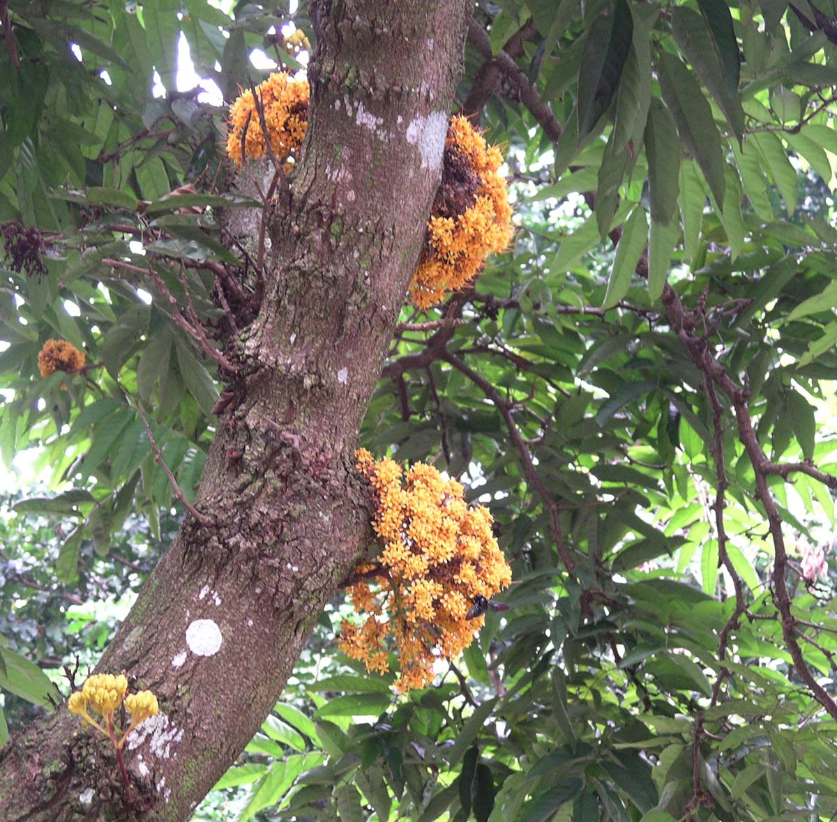 Saraca cauliflora flowering in a Singapore park